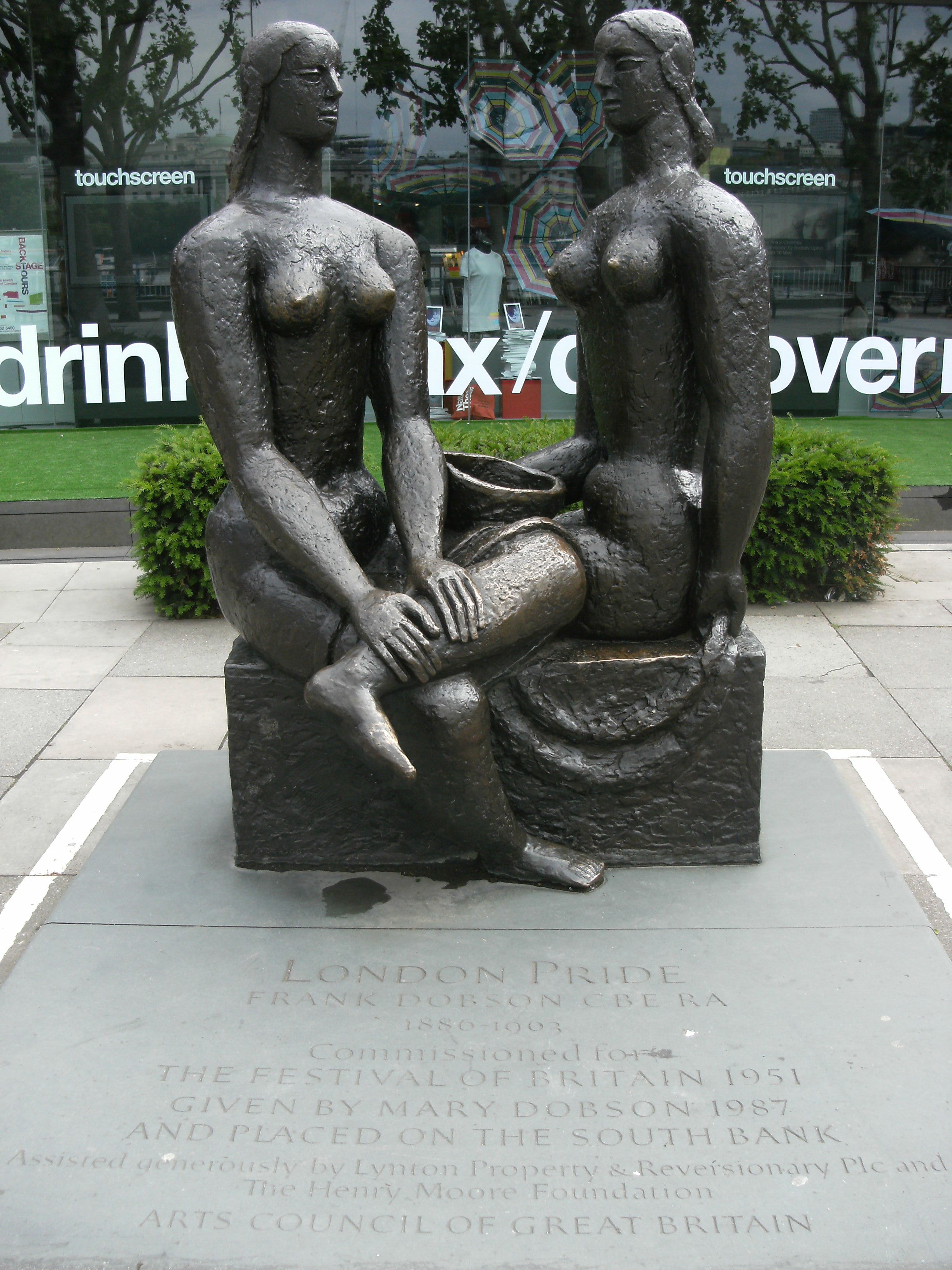 'London Pride' sculpture by Frank Dobson on the South Bank Sculpture Stroll, London. Outside the National Theatre.